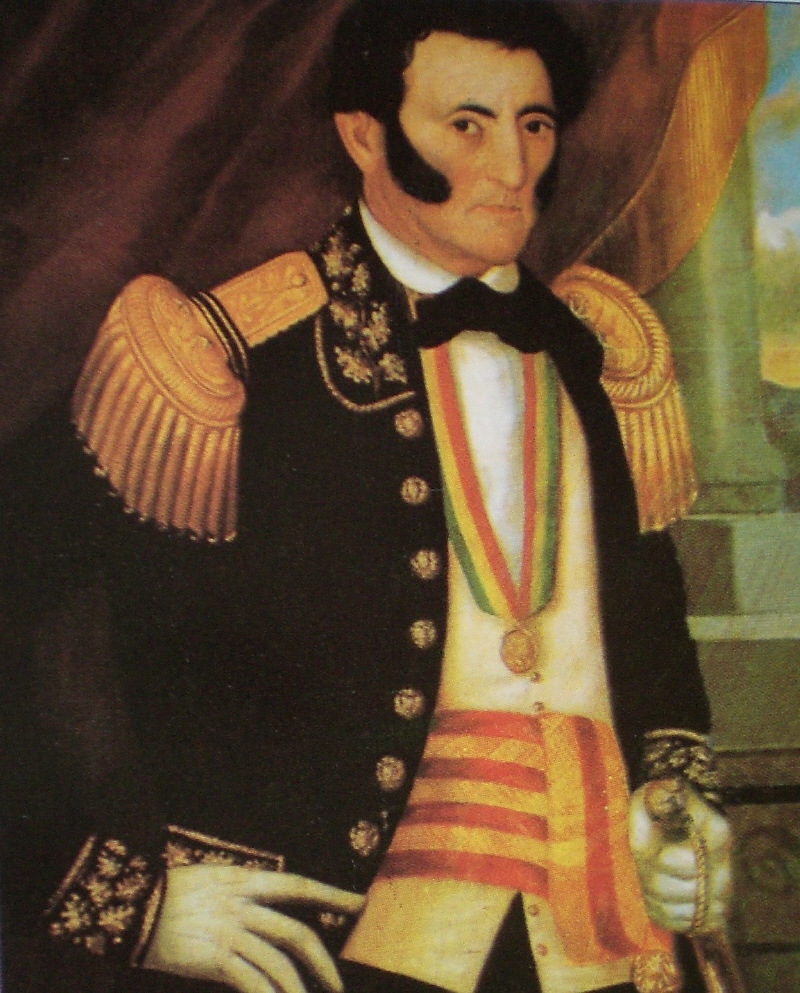 XIX Century portrait of José Gregorio Monagas.